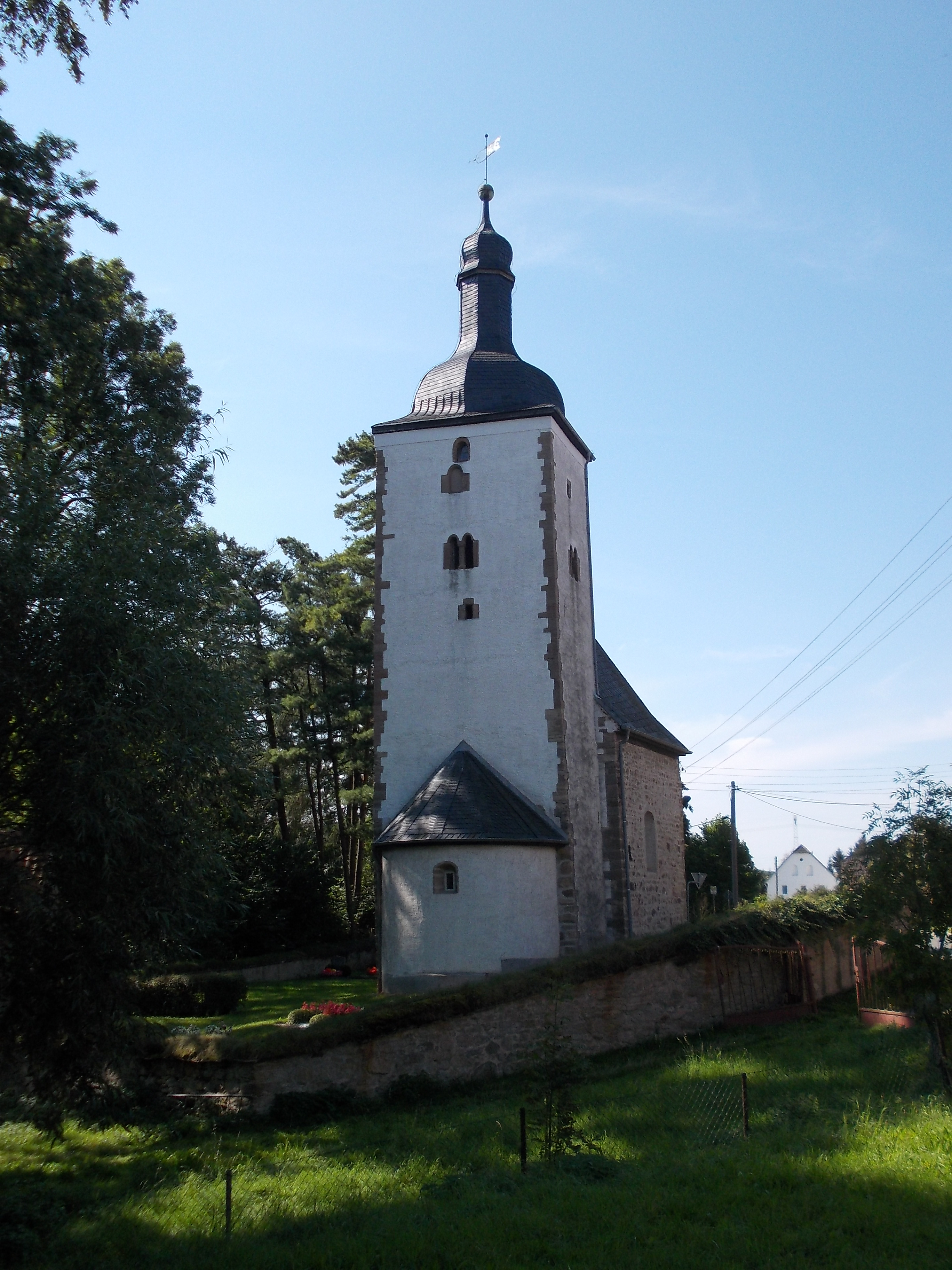 St. Peter's Church in Baldenhain (Grossenstein, Greiz district, Thuringia)